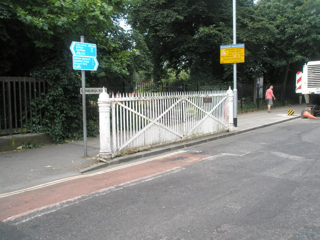 The Old Dockyard Gate at the top of Edinburgh Road